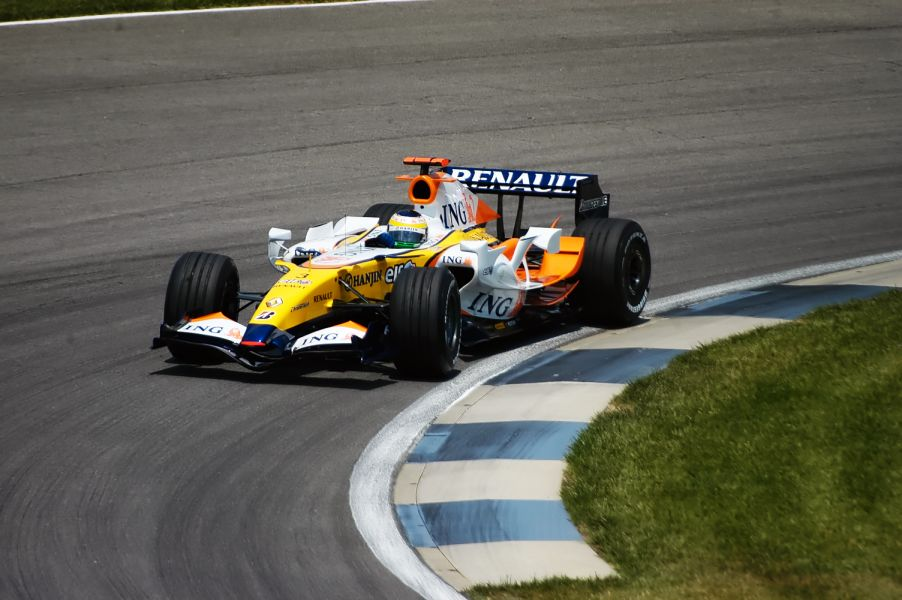 Giancarlo Fisichella driving for Renault F1 at the 2007 United States Grand Prix.